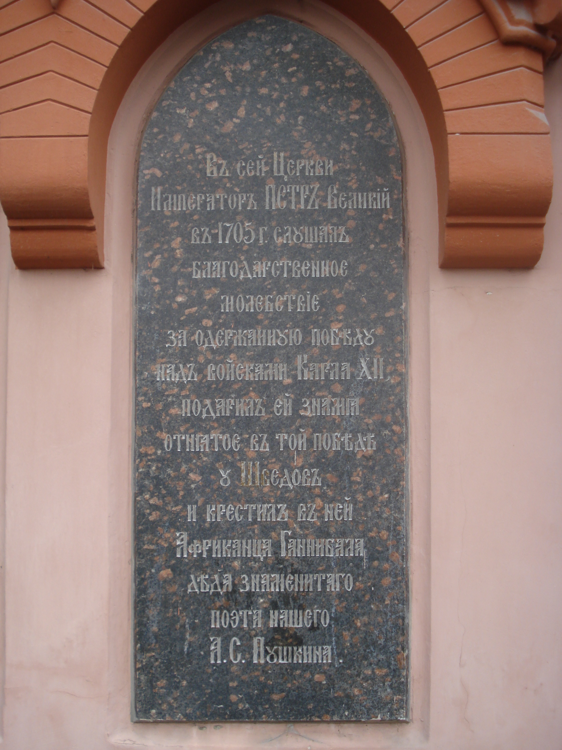 Memorial plaque on the wall of the Russian Orthodox church of St. Parasceve (Didžioji g. 2): in 1705 Tsar Peter I visited this church and bestowed a special honour on it by making a present of the flags taken from the conquered Swedes and baptised Hannibal (Abram Petrovich Gannibal), the great grandfather of Alexander Pushkin